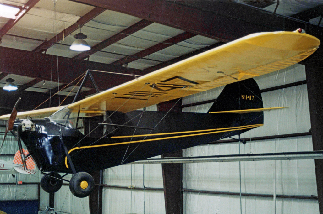 Aeronca C-2N N11417, built in 1931, exhibited at the Virginia Aviation Museum in Richmond Virginia